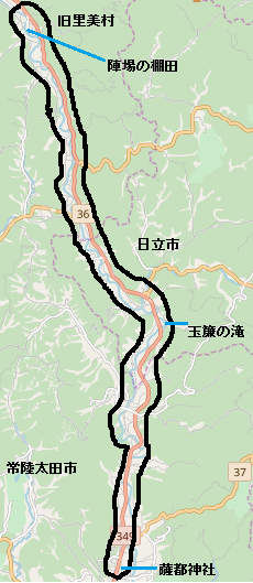 Christo and Jeanne-Claude / The Umbrellas Japan-USA 1984-91 /Japan side This map may be incomplete, and may contain errors. Don't rely solely on it for navigation.